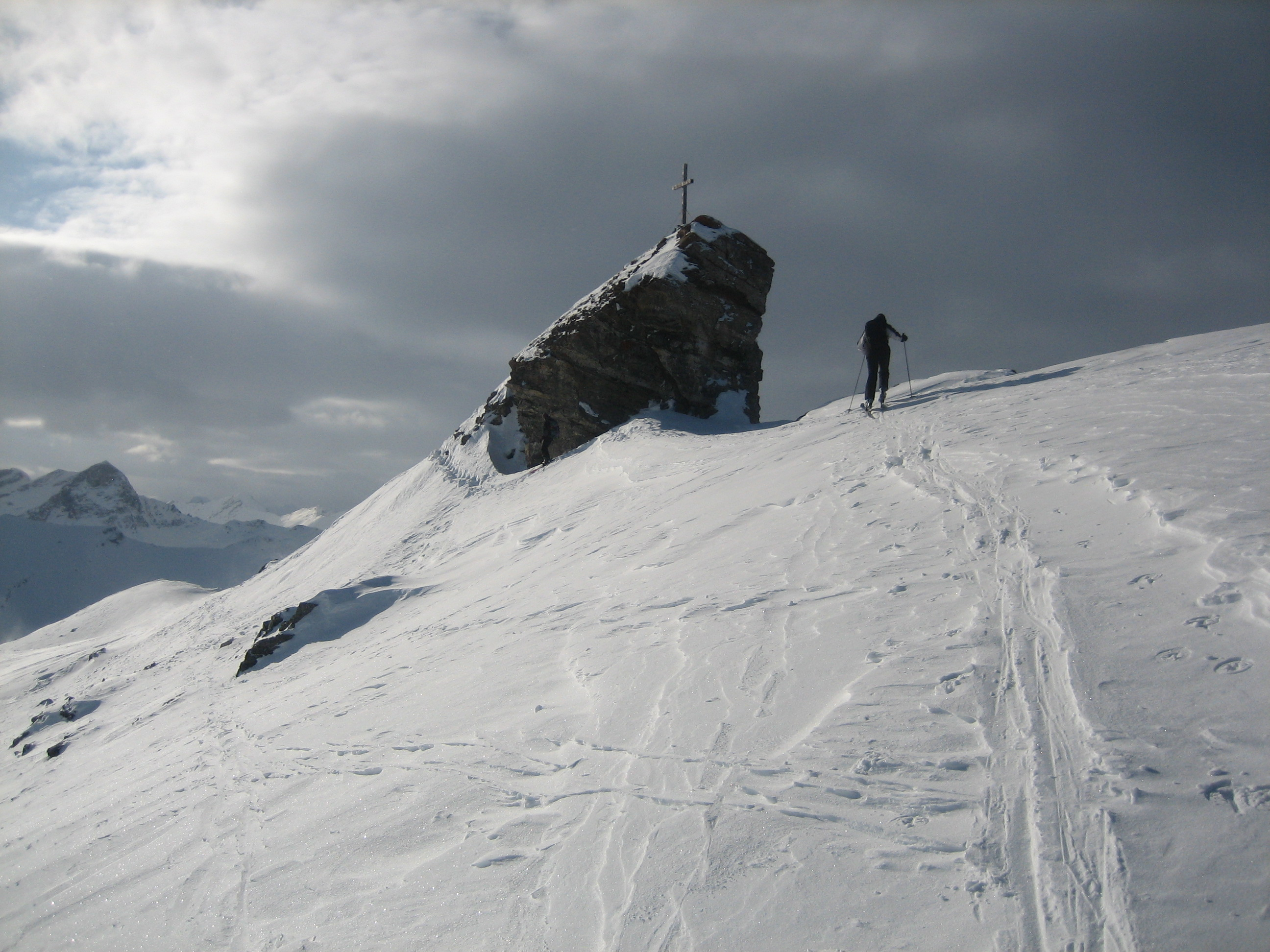 Sur Carungas, Riom-Parsonz, Ferrera, Grison, Switzerland